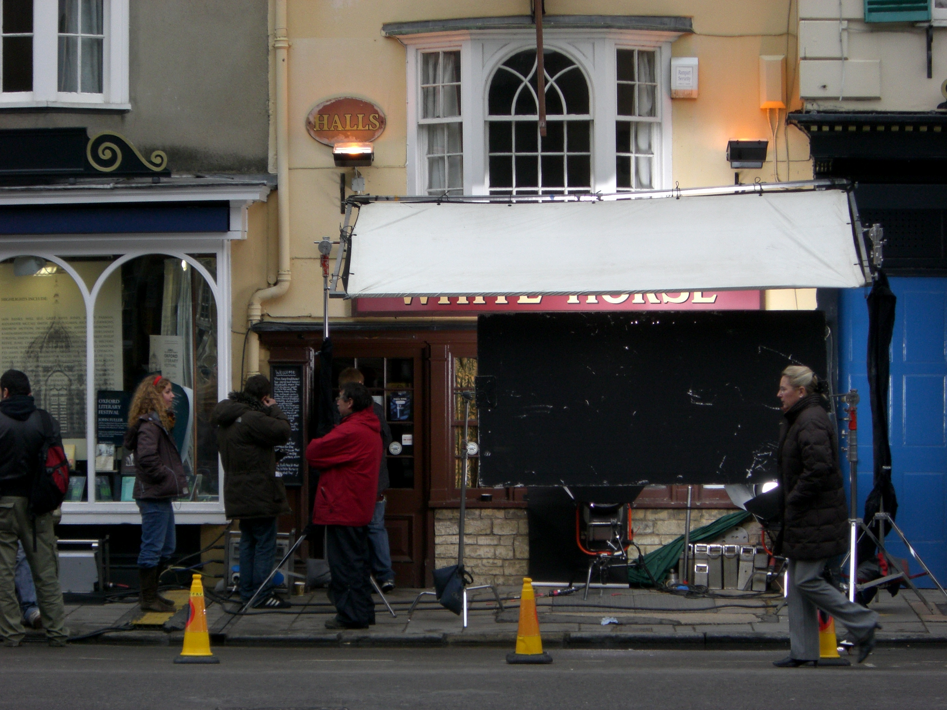 The White Horse pub on Broad Street, Oxford, being used as a film set for The Oxford Murders